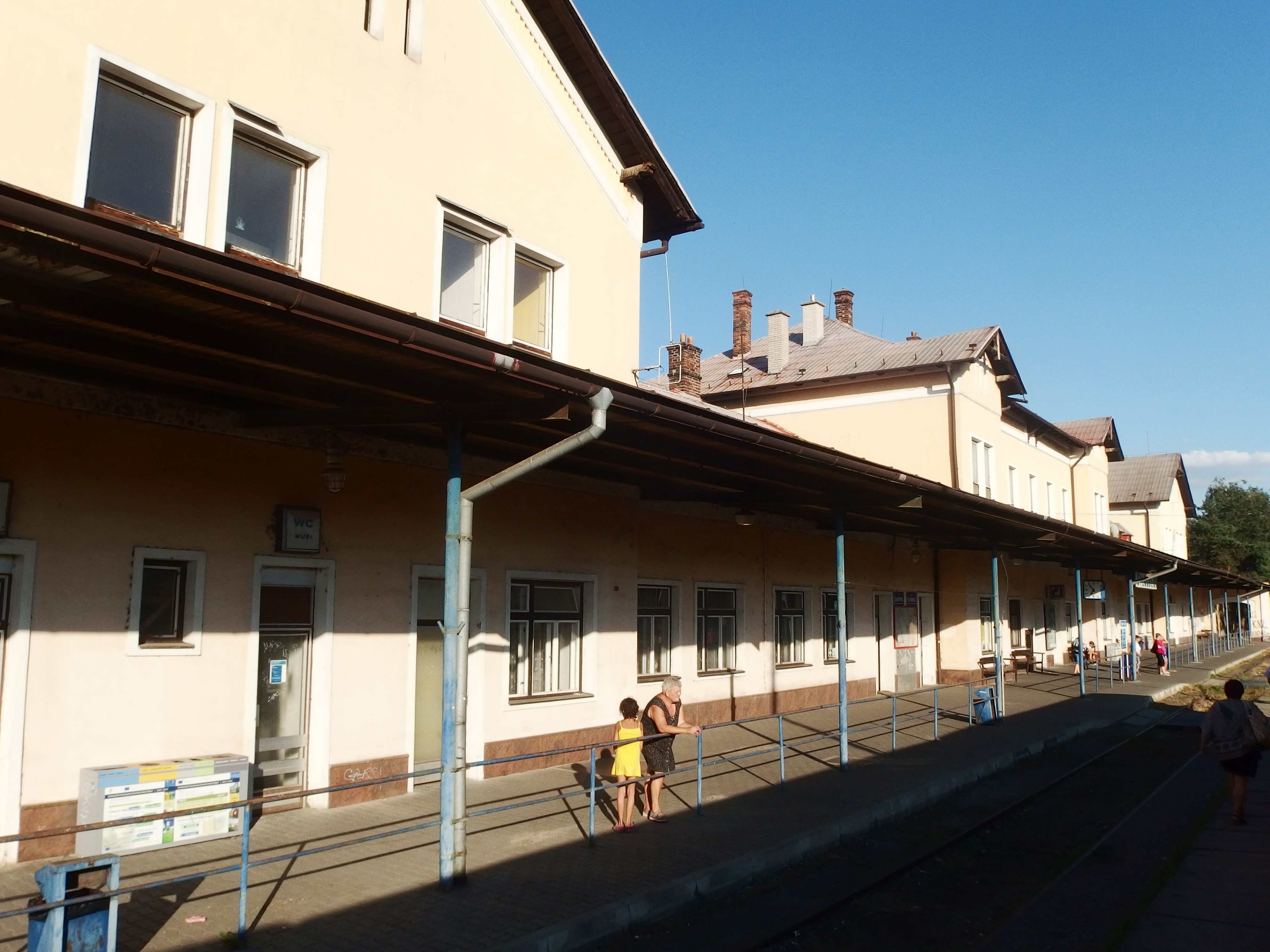 Šternberk, Olomouc District, Czech Republic. Train station.